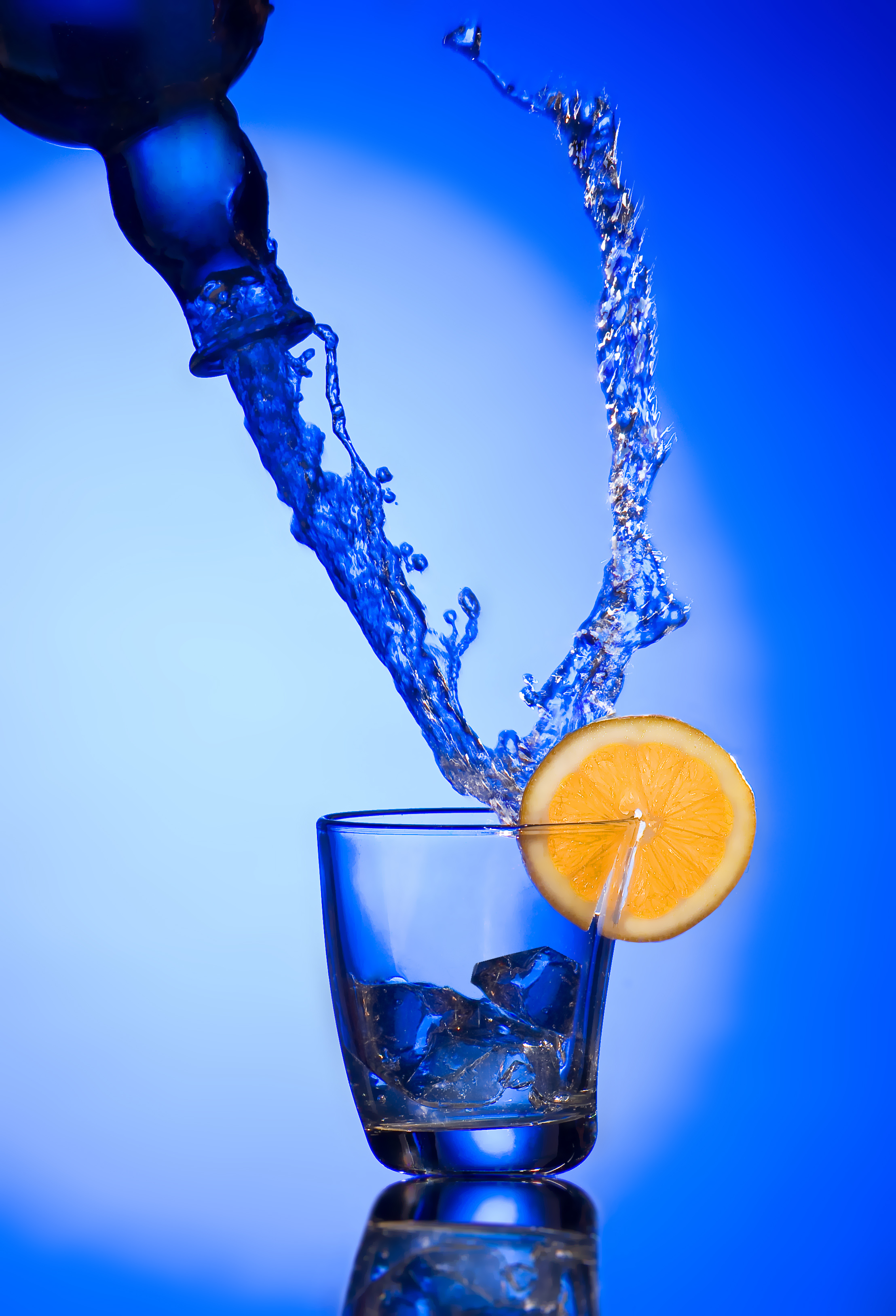 The glass was mounted with its opening downwards. Gelatin was glued into the glass to simulate ice cubes, and the lemon slice is sewn onto a slotted plastic cup bottom. A hole was drilled into the bottom of the bottle, up through which water was squirted using a hosepipe. The rest was gravity. The reflection of the bottom of the glass is a copy by image processing.